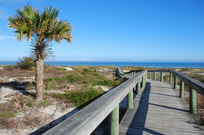 taken for this article